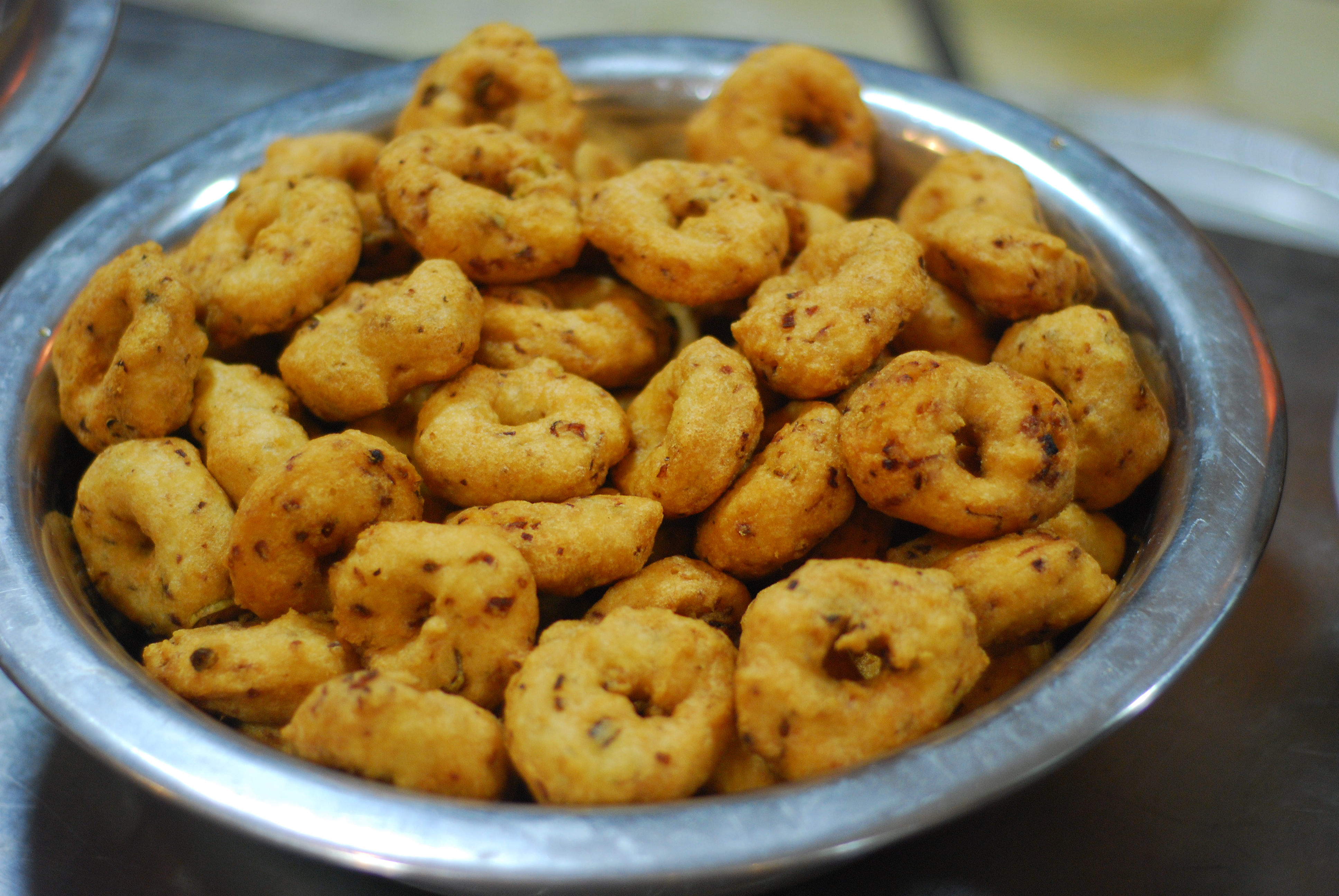 Donut made by Uzhunnu